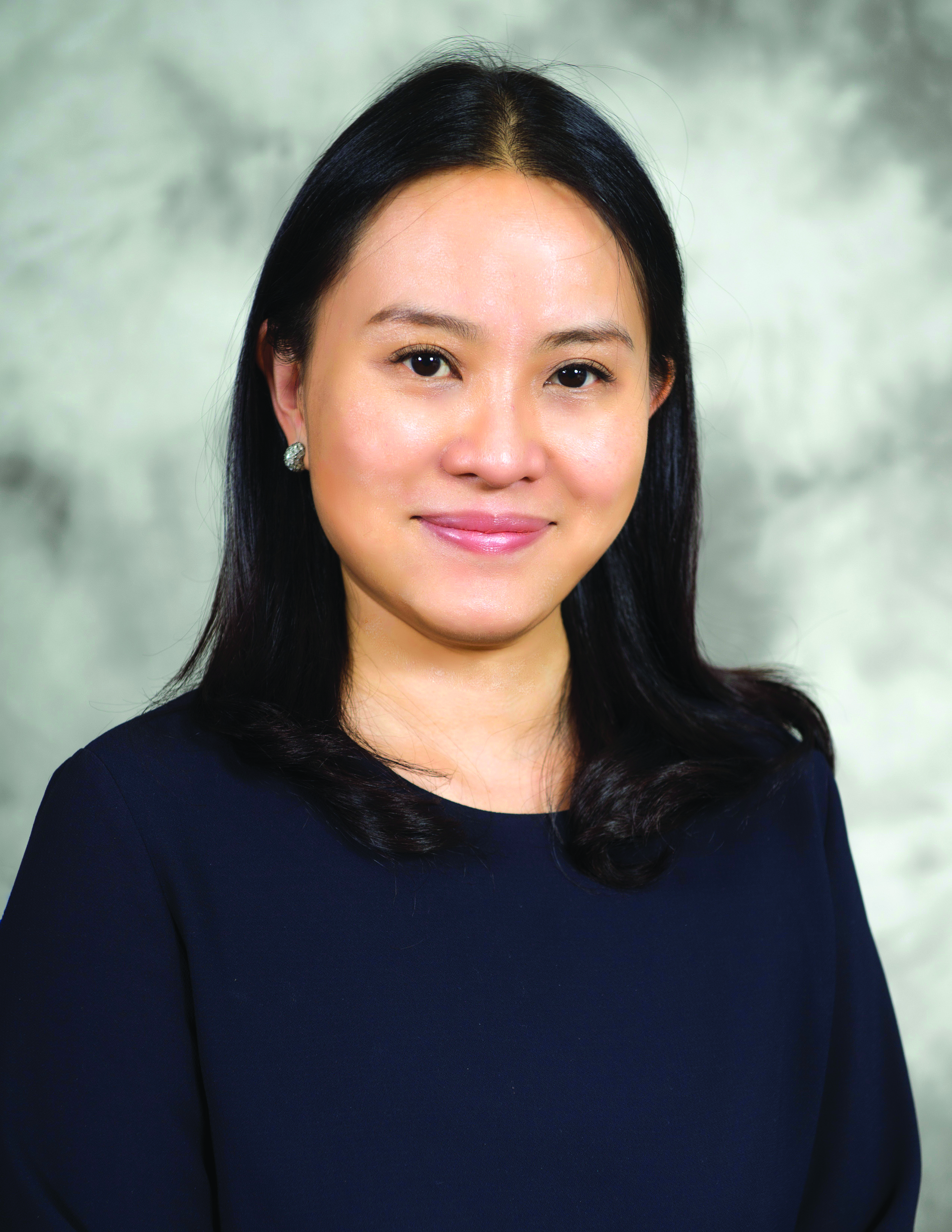 Portrait of Emily Ying Yang Chan